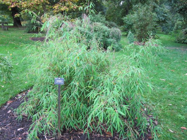 Thamnocalamus spathiflorus subsp. spathiflorus